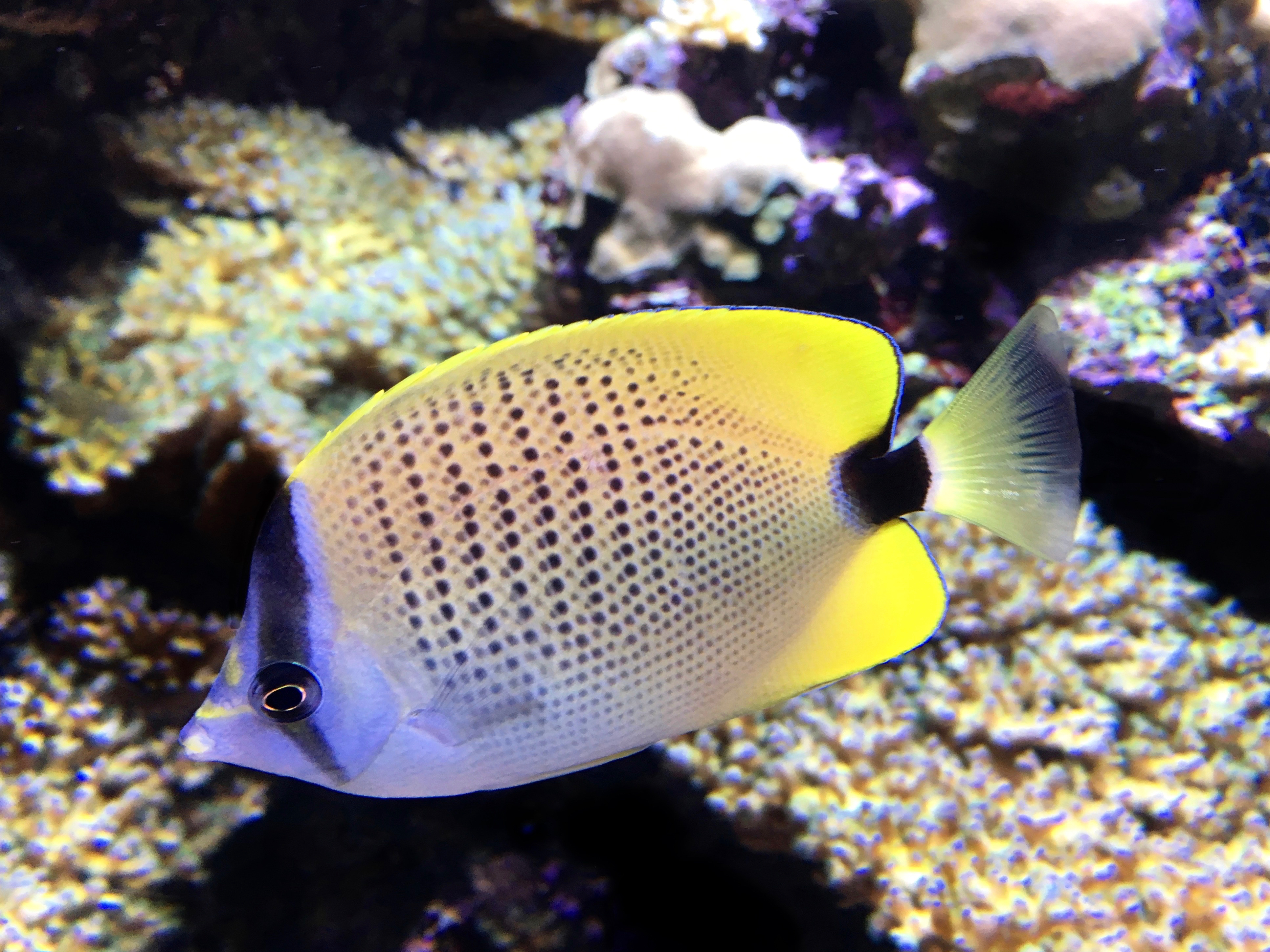 Milletseed butterflyfish (Chaetodon miliaris) at the Seattle Aquarium in the Tropical Pacific section.